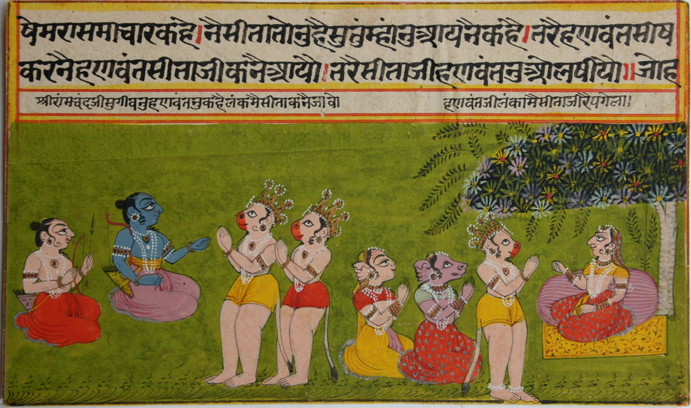 Folio from a Ramayana manuscript, text in Devanagari. Marwar, circa 1790. Gouache and gold on paper. 12.2 x 20.8cm Using continuous narrative two episodes from the Ramayana are told simultaneously. On the left Rama and Lakshmana request that Hanuman and Sugriva find Sita; on the right Hanuman has found Sita imprisoned on Lanka, underneath the Ashoka tree. Her she-demon warders acquiesce and show deference